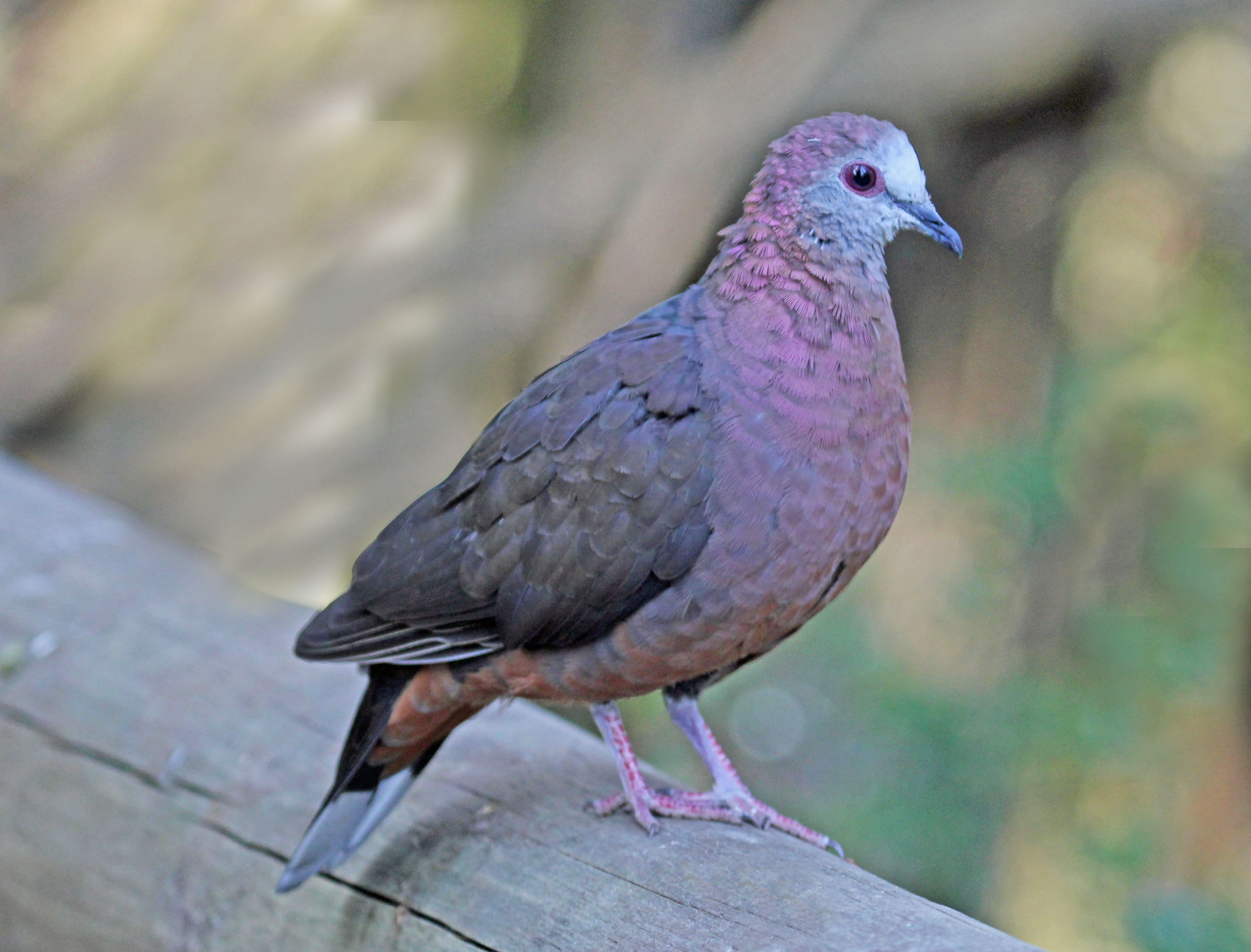 Cinnamon Dove (Columba larvata) at Birds of Eden aviary, South Africa